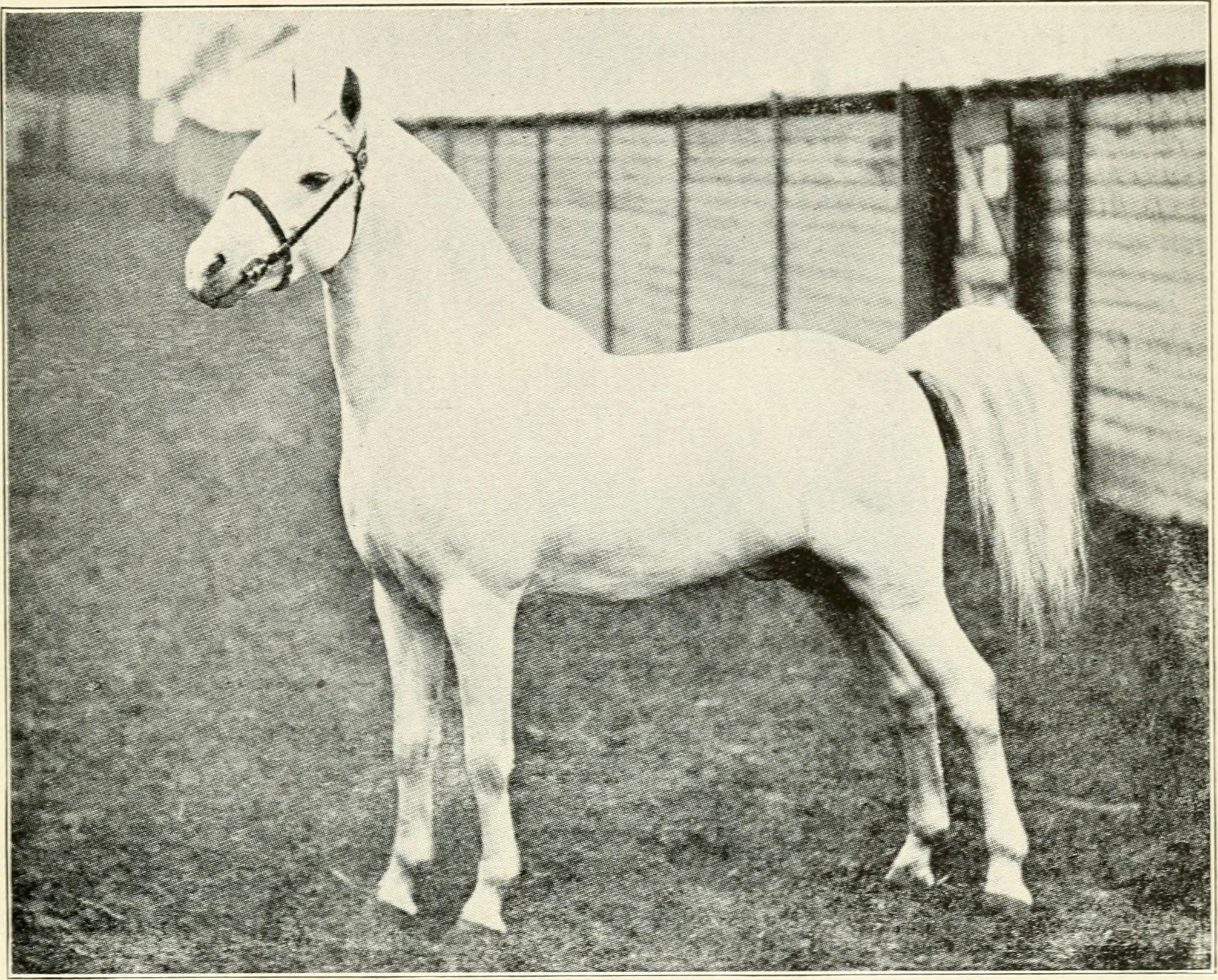 Title: Herds and flocks and horses Year: 1911 (1910s) Authors: Waddell, Alexander Henry, 1858-1916 Subjects: Horses Livestock Publisher: Chicago, Ill. : Pedigree Publishing Co. Text Appearing Before Image: shp:tland pony stallion Herds and Flocks and Horses. 77 Text Appearing After Image: WELSH PONY equal. America lias taken to him kindly, and he is being bredby a few enterprising men with success and gratitude. Thereis room for him here in unlimited numbers, and splendid re-turns await others who will take him up. Another pony that is gaining favor, because of his beauty,and usefulness, is the Welsh pony. He is better suited to olderchildren than is the Shetland, and will become much soughtafter for that stage of juvenile existence, which comes betweenthe Shetland pony age and the time when they are able to ridesmall horses. He is a hardy, sound constituted animal, beauti-ful to look upon, and will become a prime favourite here astime goes on. 78 Herds and Flocks and Horses. Hackney ponies for fashionable harness work, and particu-larly for ladies to drive on social visits and for pleasure, arethe rage in England; they fetch tremendous prices, and arethe most perfect harness ponies in existence. The breeding ofthese beautiful little animals has been taken up in this c